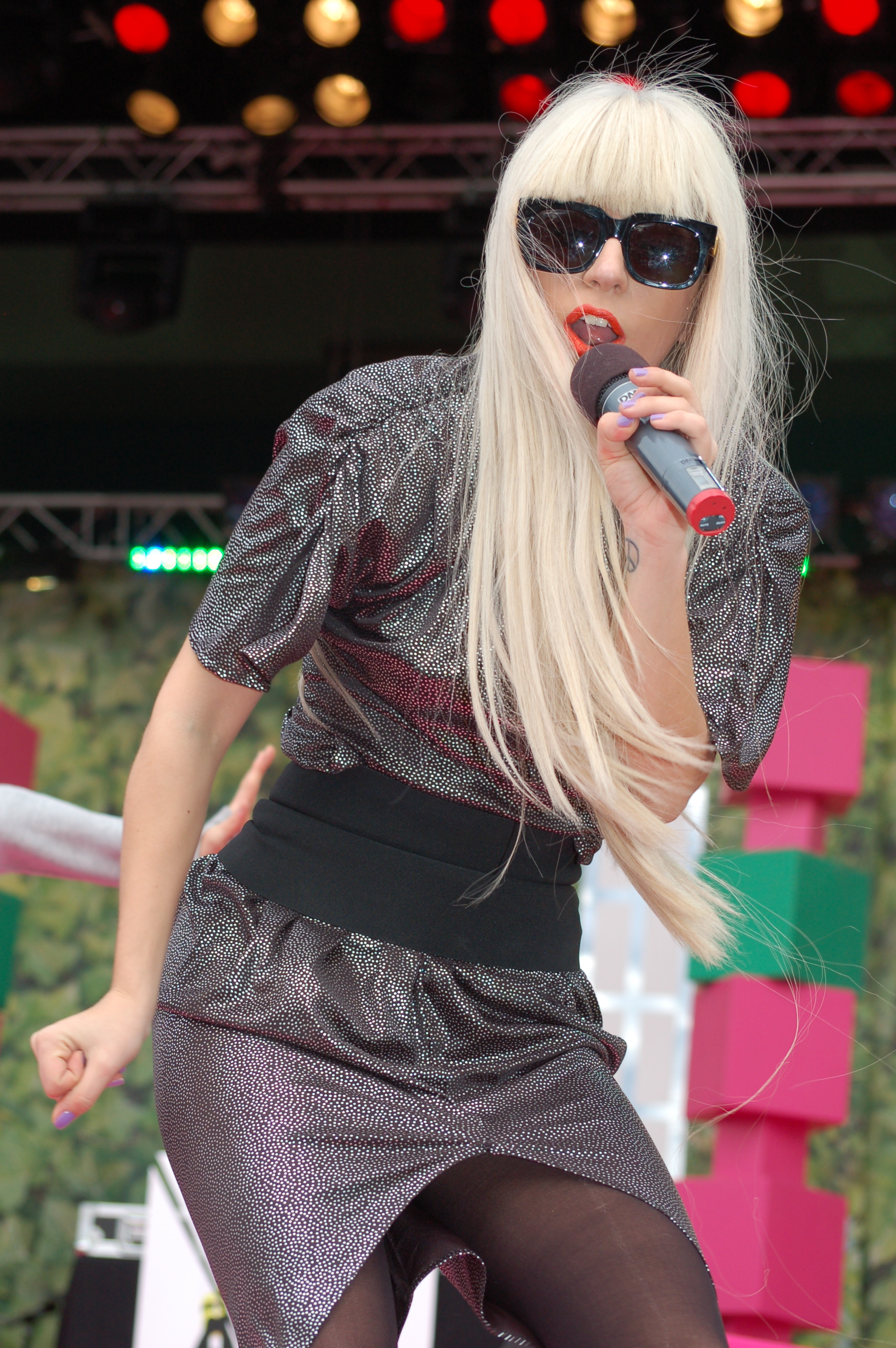 Lady Gaga visit Sweden at Sommarkrysset, Gröna Lund, Stockholm.